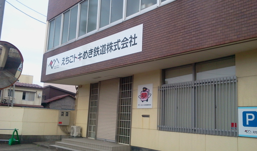 Echigo Tokimeki Railway headquarters in Joetsu City, Niigata Prefecture, Japan